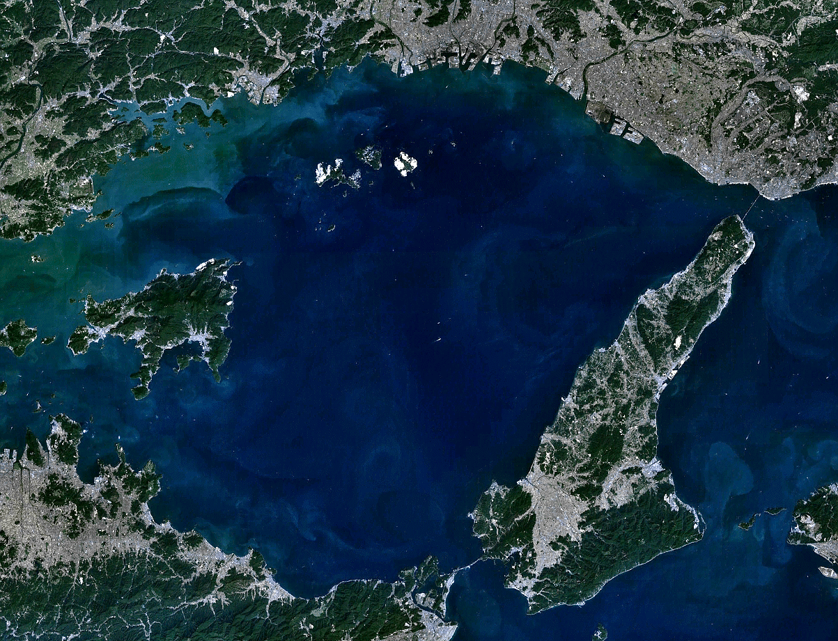 the view of Harima Nada (Inland Sea) in Japan, from Landsat, generated on NASA World Wind.